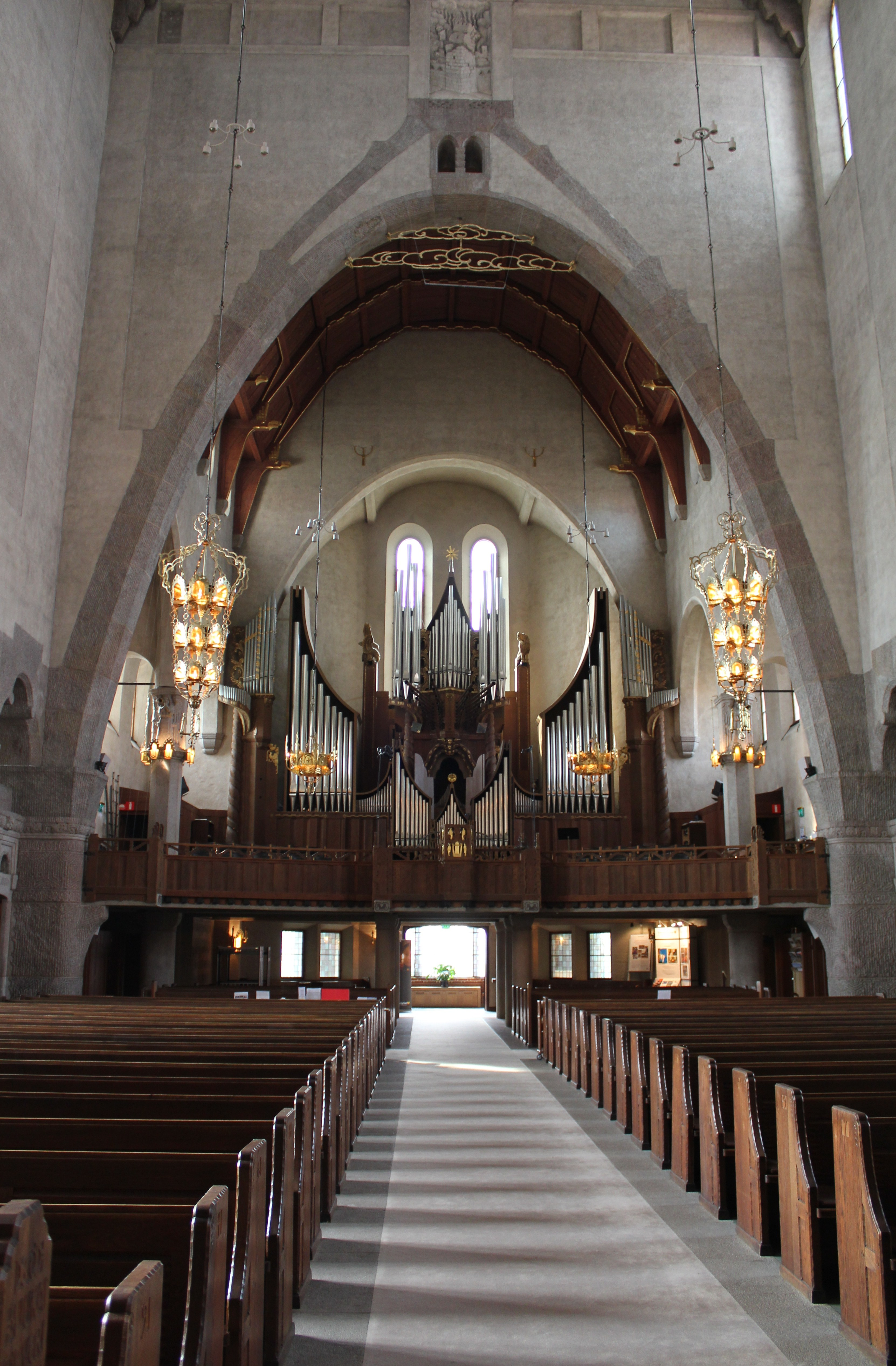 Engelbrekt Church in Stockholm, Sweden. Interior facing the organ.